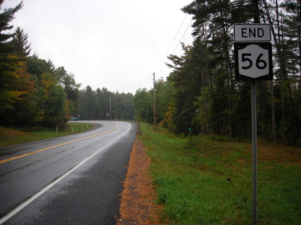 New York State Route 56 southbound approaching NY 3 in Sevey Corners, which serves as the former's terminus.